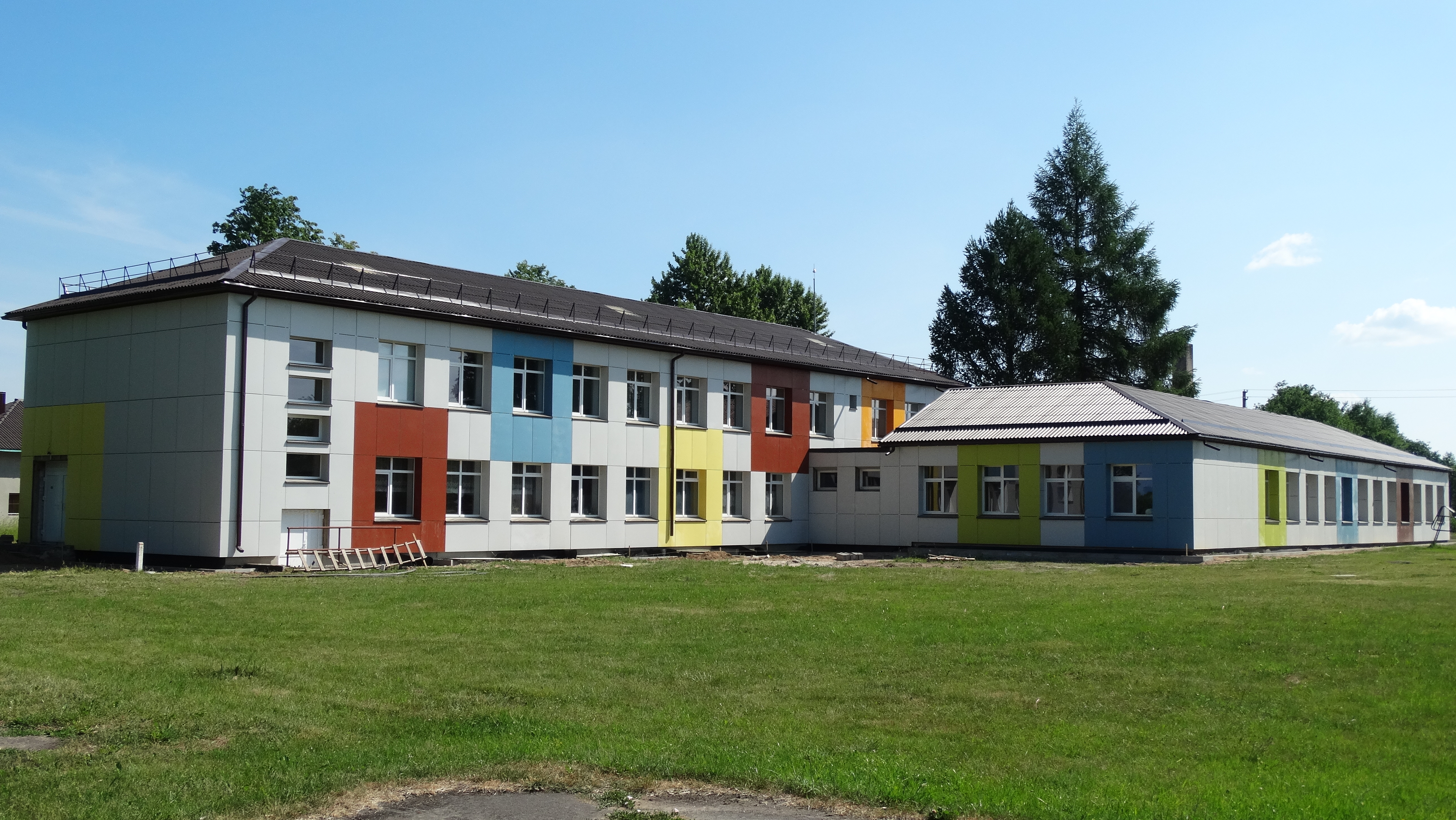 Kyviškės Basic School in Dobromislė, Vilnius District, Lithuania